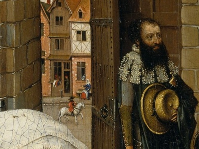 South Netherlandish, oil on oak, the Cloisters Collection, 1956